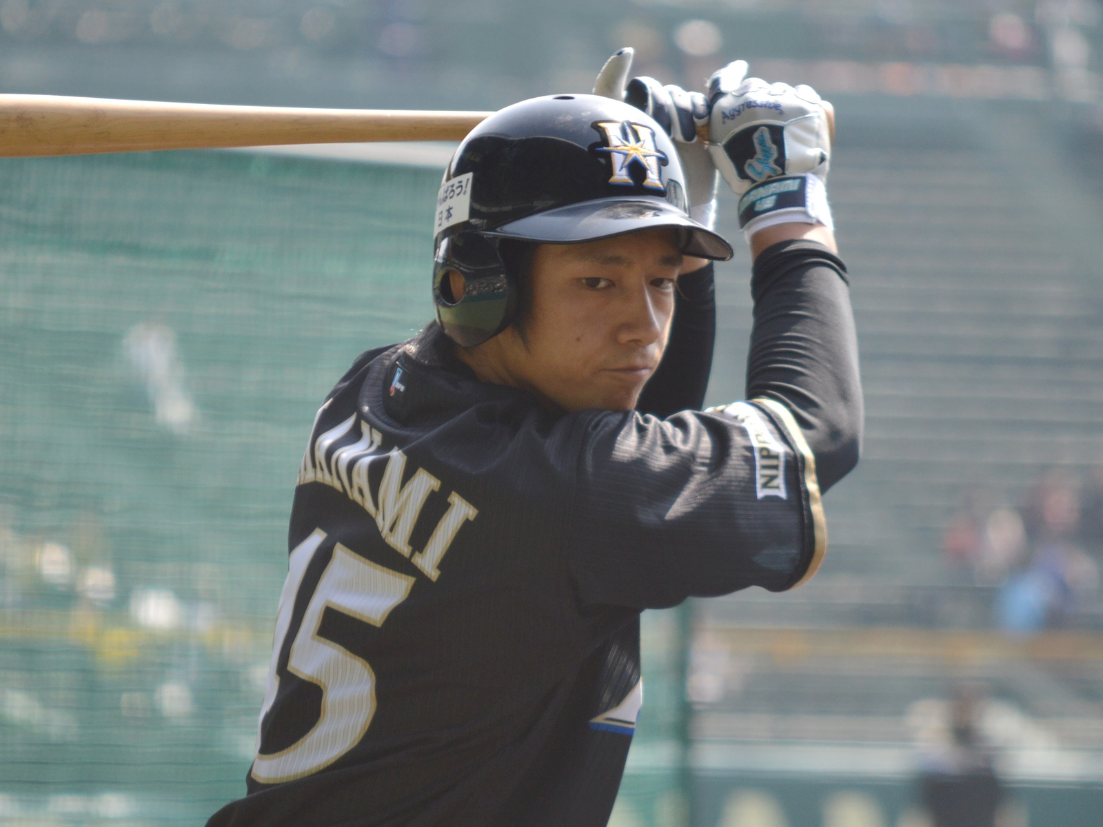 Takahiro Imanami, infielder of the Hokkaido Nippon-Ham Fighters, at Hanshin Koshien Stadium.